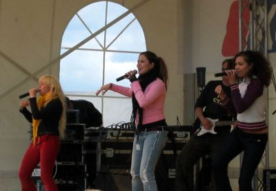 Gimmel performing live in Helsinki on 15 June 2003